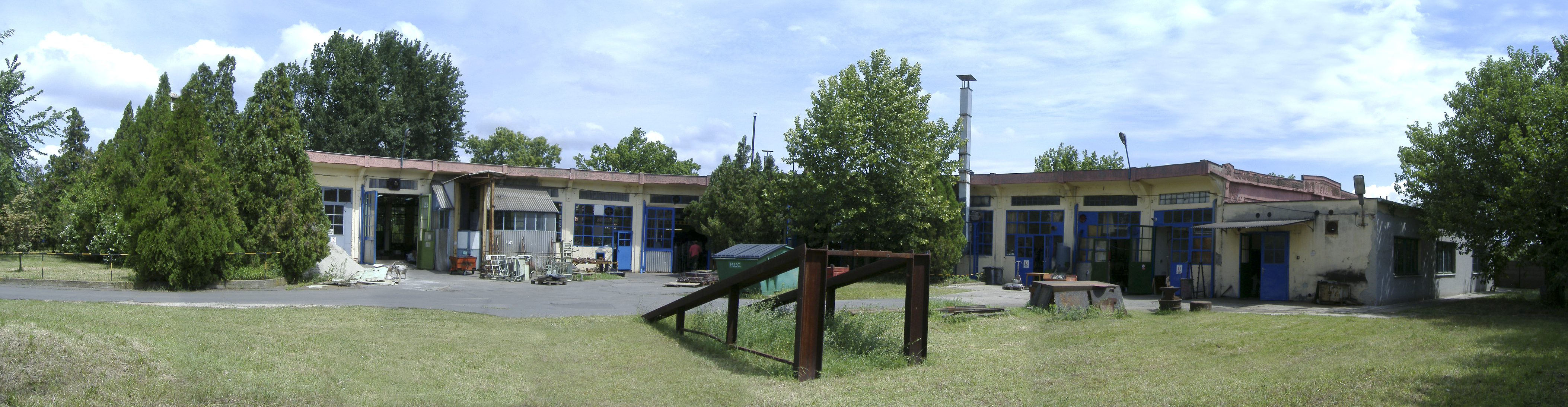 The ex-narrow gauge loco shed of Békéscsaba